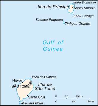 Map of Sao Tome and Principe, showing major towns.